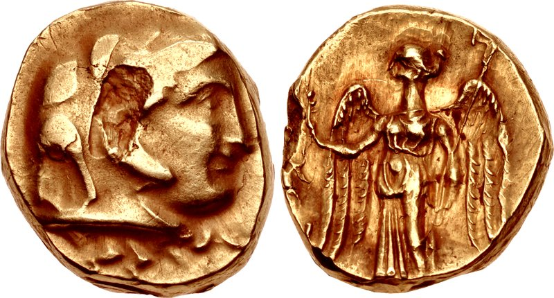 Seleukid Kings of Syria. Seleukos I Nikator. 312-281 BC. AV Daric (14mm, 8.08 g, 1h). Uncertain mint in Babylonia. Struck circa 300-298 BC. Head of the deified Alexander right, wearing elephant skin Nike standing left, holding wreath in extended right hand and cradling stylis in left arm; in left field horned horse head right [above monogram]. Cf. SC 101; HGC 9, 8; O. Bopearachchi, “Two unreported coins from the second Mir Zakah deposit” in ONS Newsletter 165 (Autumn 2000), p. 15 (this coin).